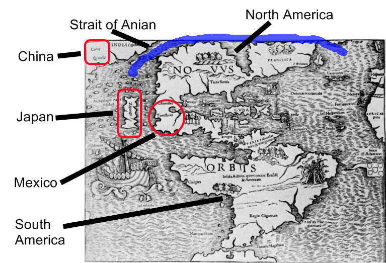 Map of North America, Asia and Europe first published in 1540, showing Strait of Anian or Northwest Passage